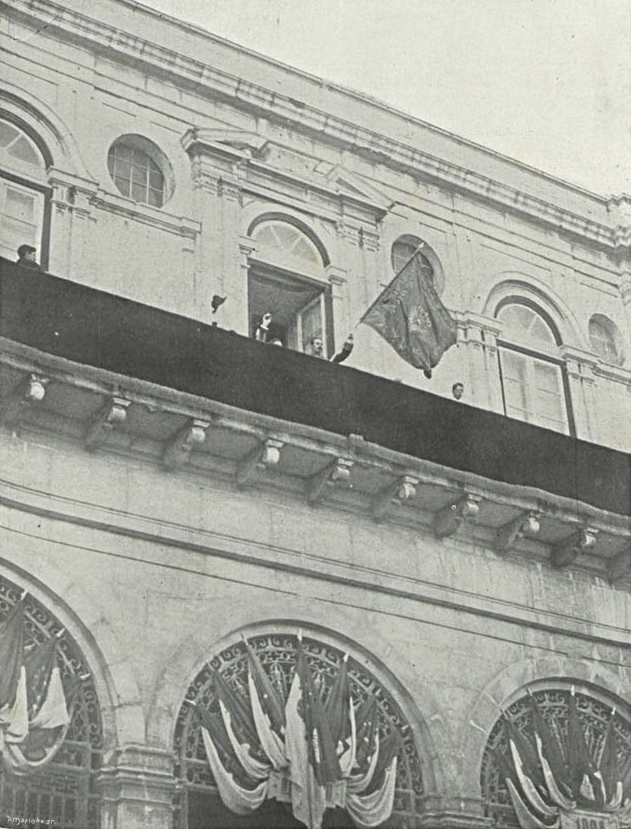 The Count of S. Lourenço, royal standard in hand, announces the people the Acclamation of King Manuel II of Portugal, from the balcony of St. Benedict's Palace (May, 1908).